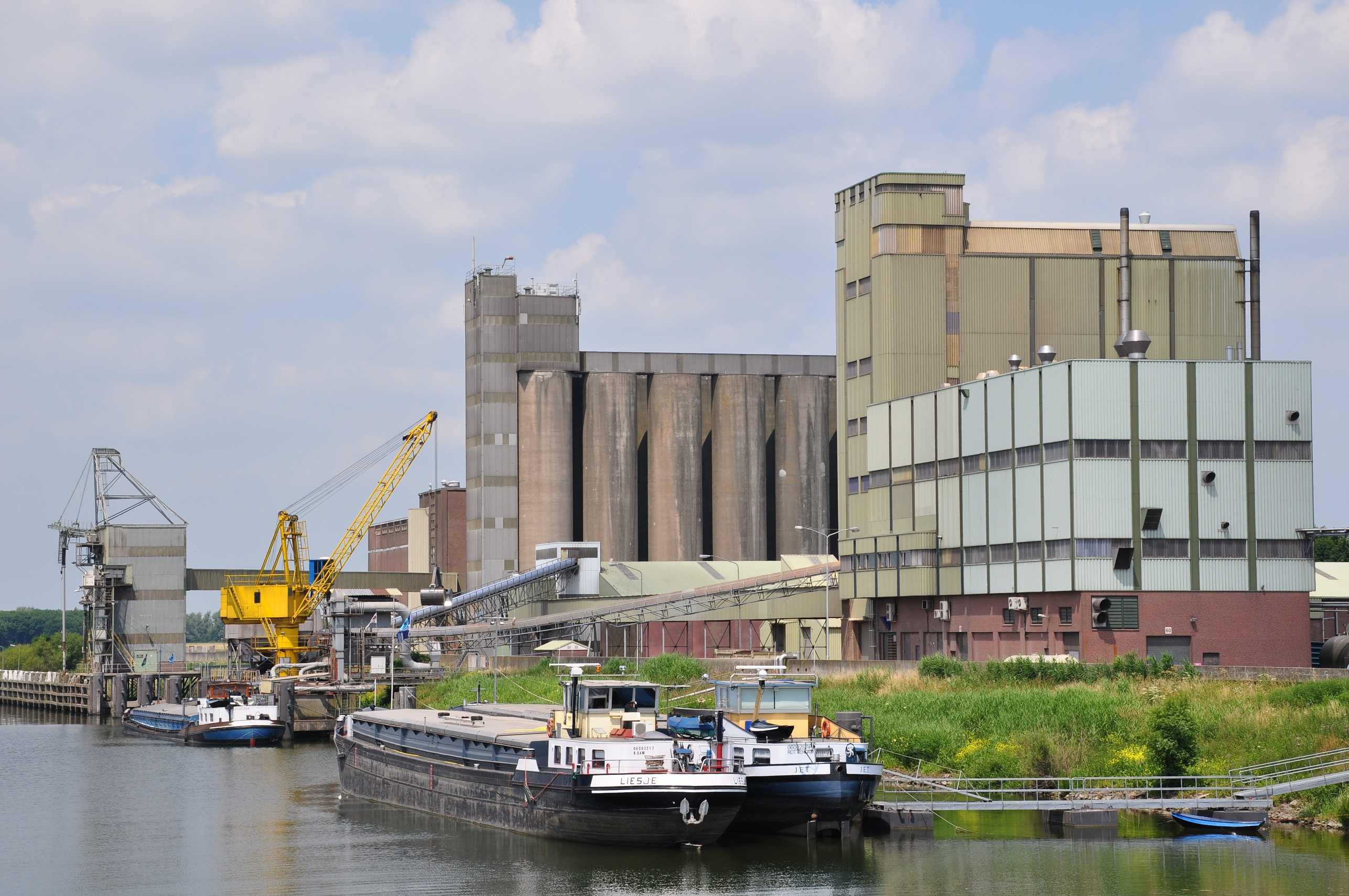 Industrial park "Munnikenland" on a branch of the Meuse River near Poederoijen (municipality of Zaltbommel, Province of Gelderland, Netherlands). It has grain storage and handling facilities and a concrete factory. The terrain is sometimes called "Poederoijen Industrial Park".